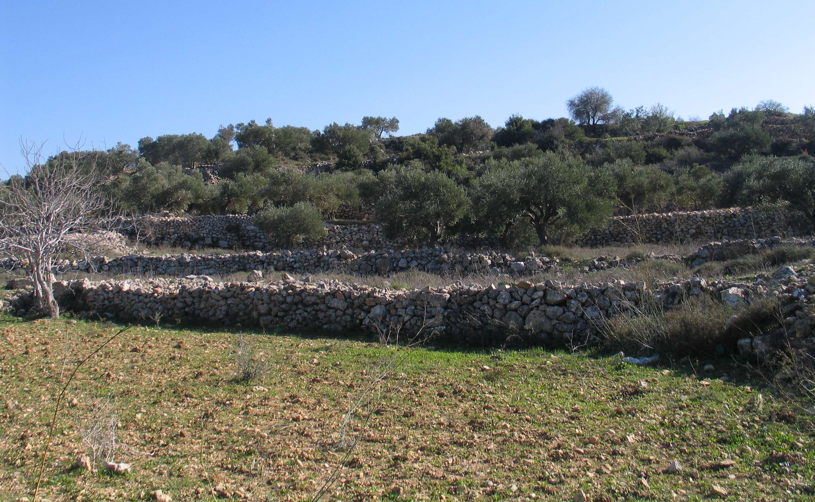 Village of Batir, West Bank.